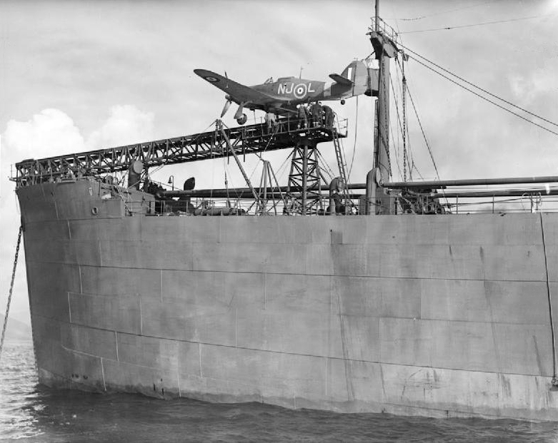 A Royal Air Force Hawker Hurricane Mk IA on the catapult of a CAM (Catapult Armed Merchant) Ship at Greenock, Syotland (UK). The first RAF trial CAM launch was from SS Empire Rainbow at Greenock on the River Clyde on 31 May 1941, the Hurricane landed at Abbotsinch.